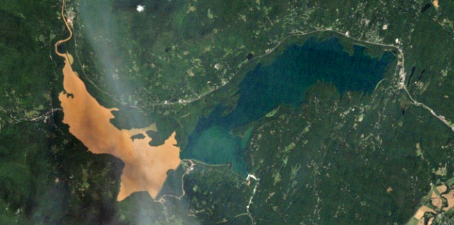 NASA Landsat image of Ashokan Reservoir in Ulster County, NY, USA, taken three days after Hurricane Irene struck the region, showing how the reservoir's two-basin design is meant to filter out :w:turbidity before sending the water on to New York City via the Catskill Aqueduct: the west basin is filled with muddied floodwaters while the east one is clear.